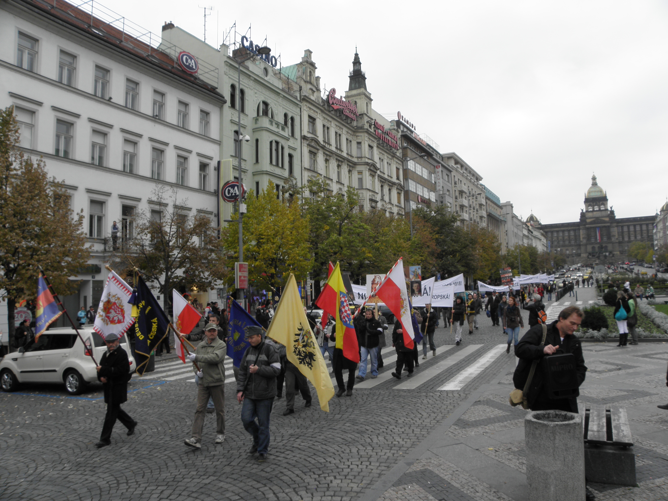 Monarchist March 2011, Wenceslas Square, Prague, Czech Republic